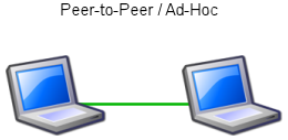 Replaced with new PNG version.